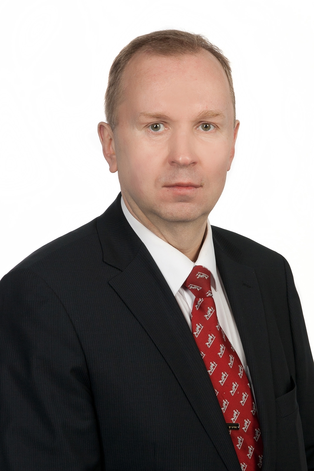 Viktor Turkin (*1965) is an Estonian lawyer, an expert in family and property law.